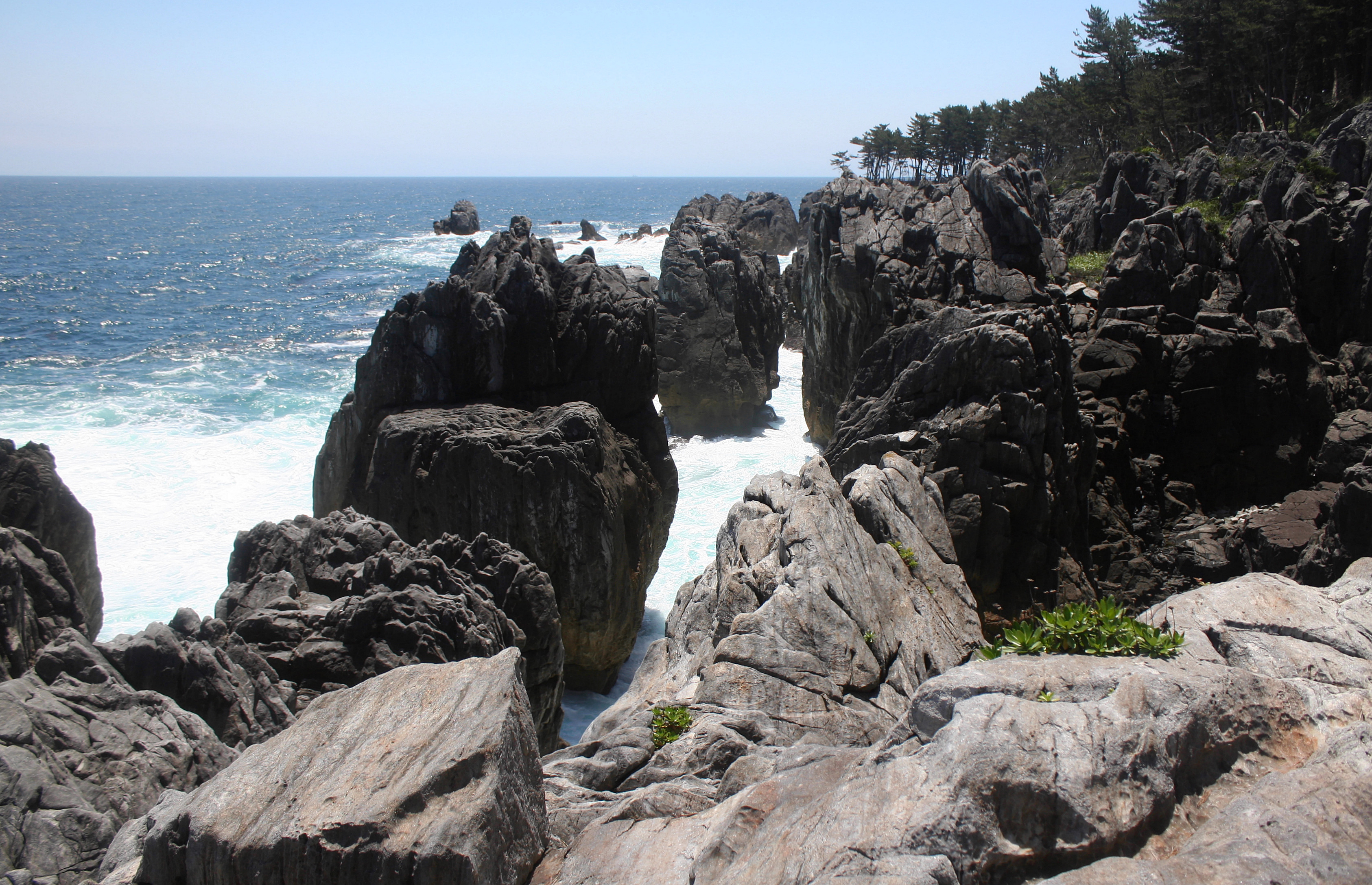 The Hanzo coast in Kesennuma City, Miyagi Prefecture, Japan